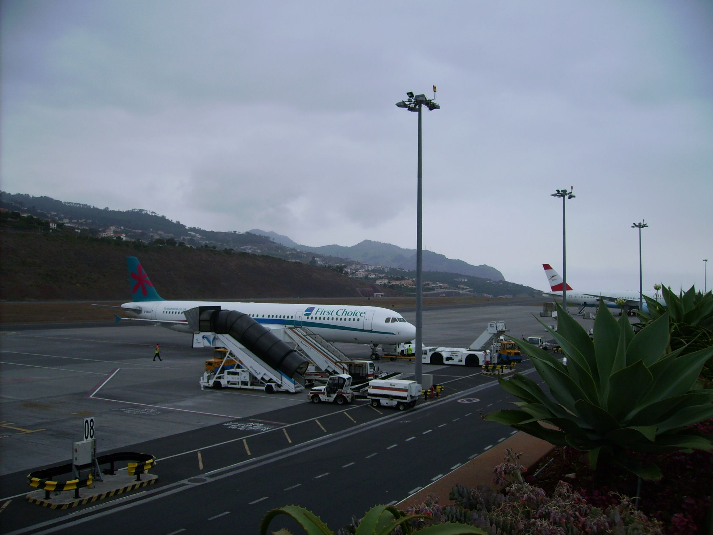 Airport of Funchal in Madeira